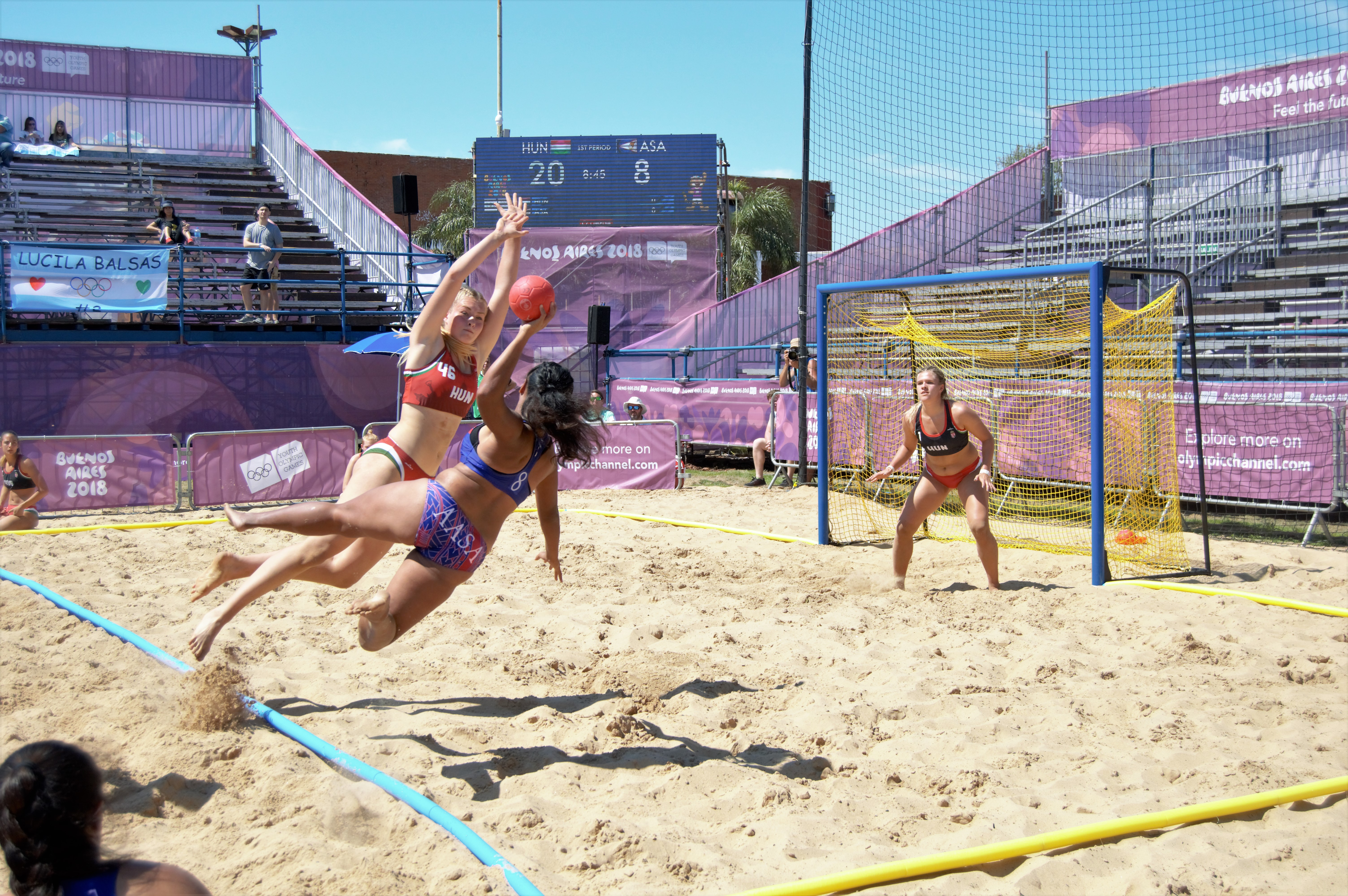 Beach handball match between American Samoa and Hungary at the 2018 Summer Youth Olympics.